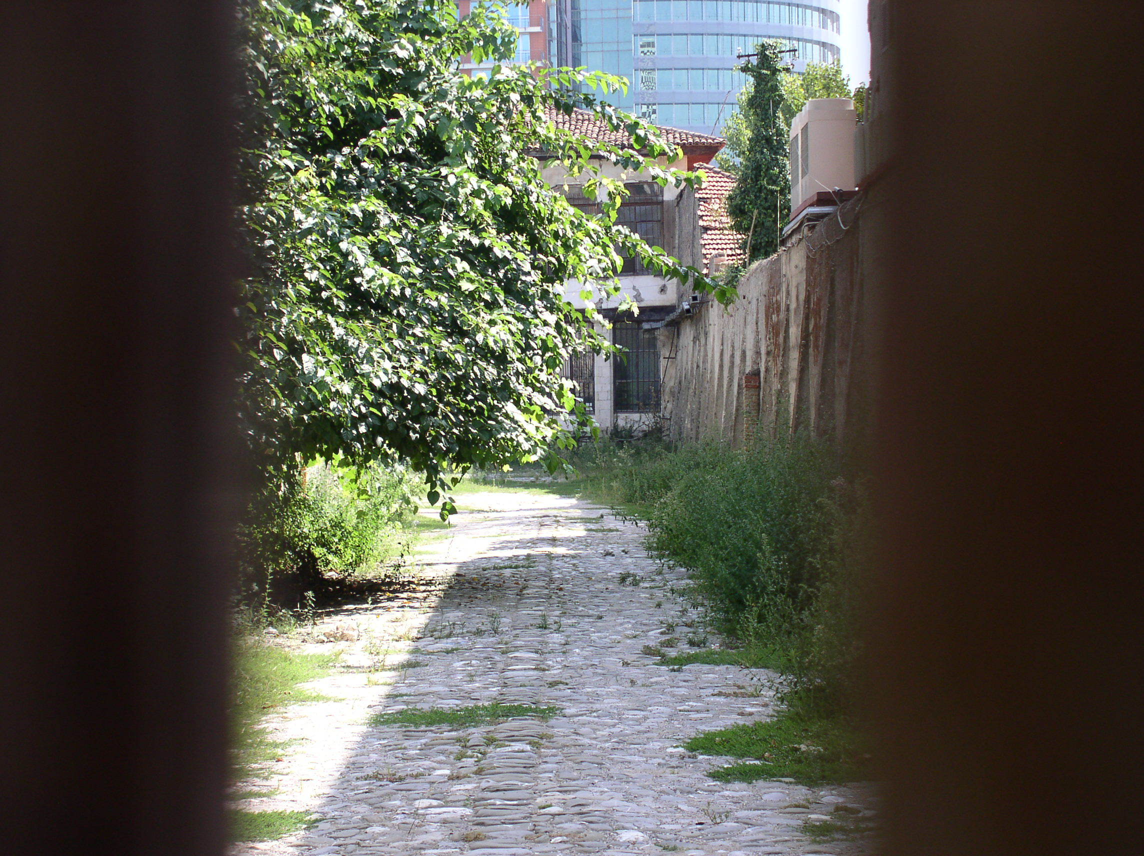 Trough locked door, path toward Toptani family house, in ruins